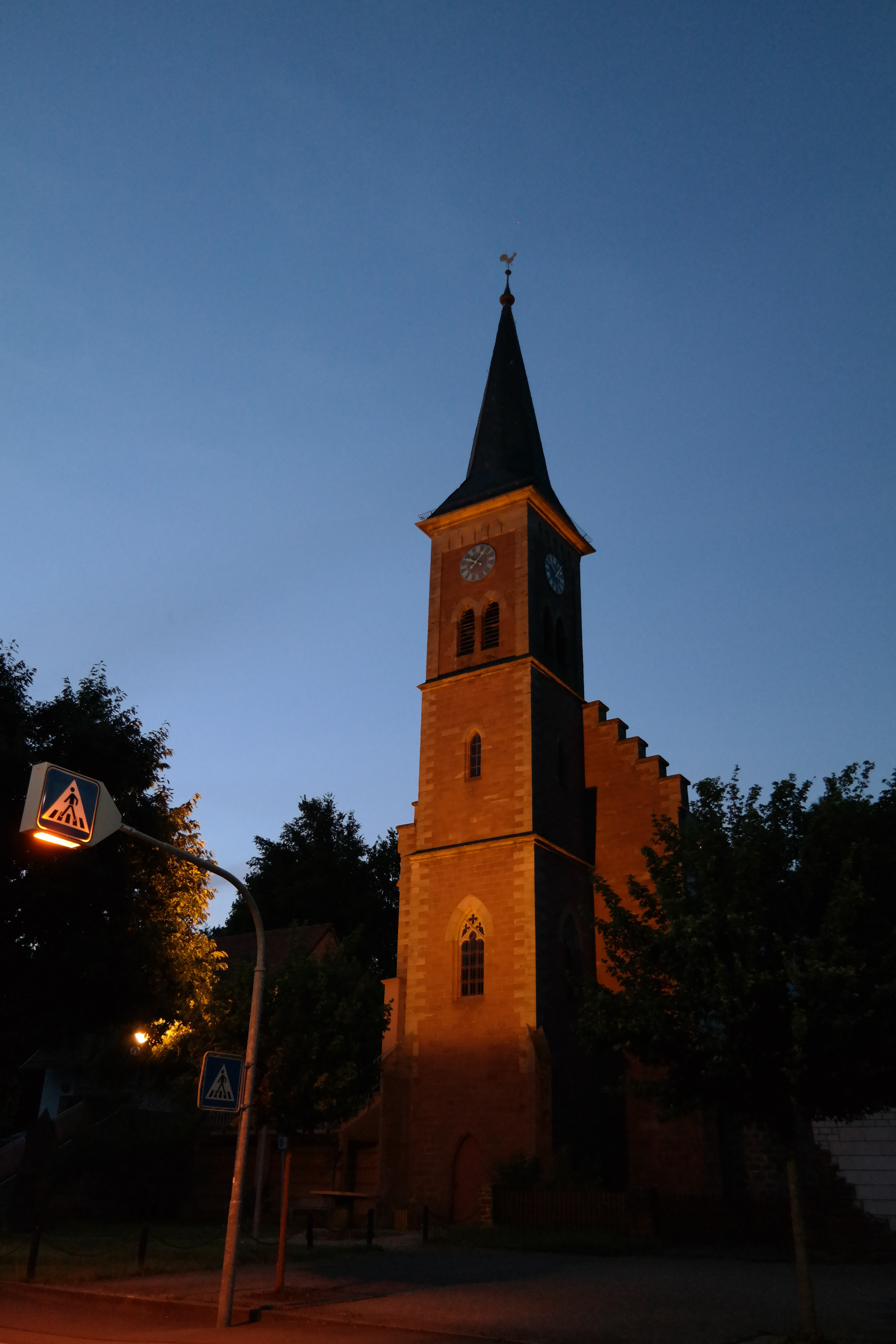 Apostelkirche in Einöd